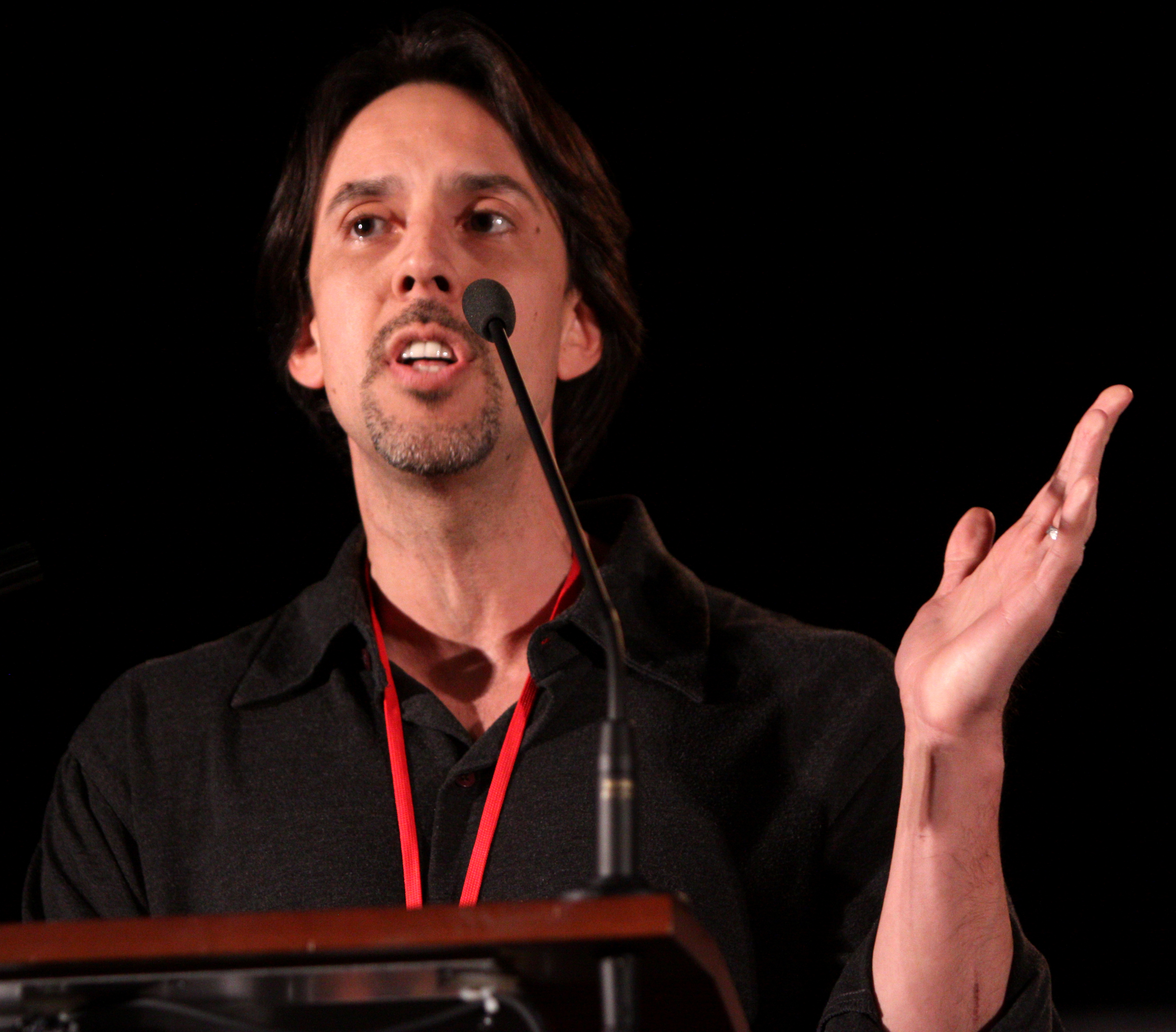 Jaime Paglia at the 2011 Phoenix Comicon in Phoenix, Arizona.